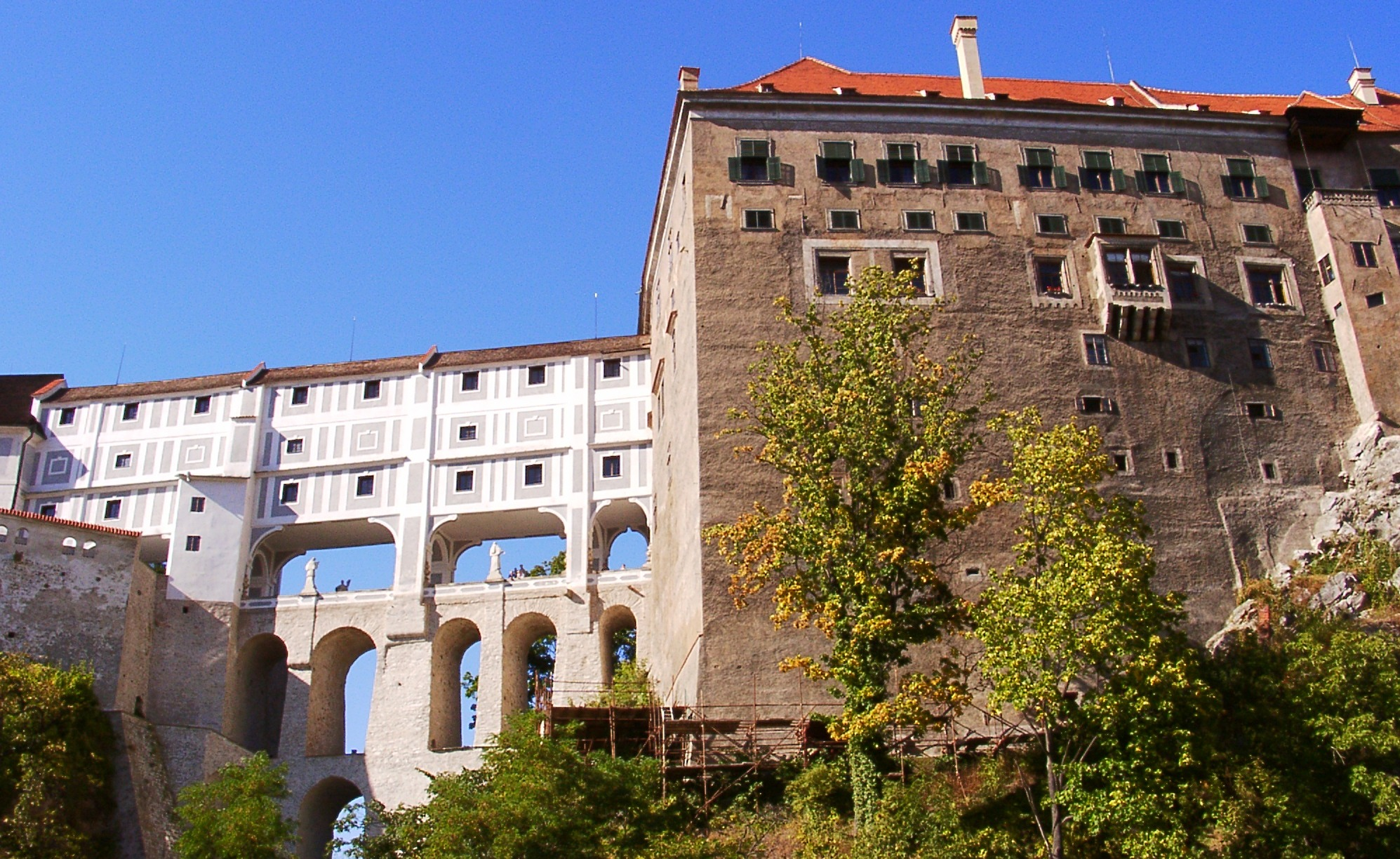 Bridge at the castle of Český Krumlov, seen from the south.